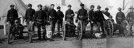 Soldiers pose with three of the four Hotchkiss Guns used against the Lakota at Wounded Knee. Photo by Grabill, Deadwood, South Dakota. The cannon are Hotchkiss Mountain Guns of 1.65 in. They are sometimes referred to as Mountain Rifles. (Source: Ed Dittus, 2008)